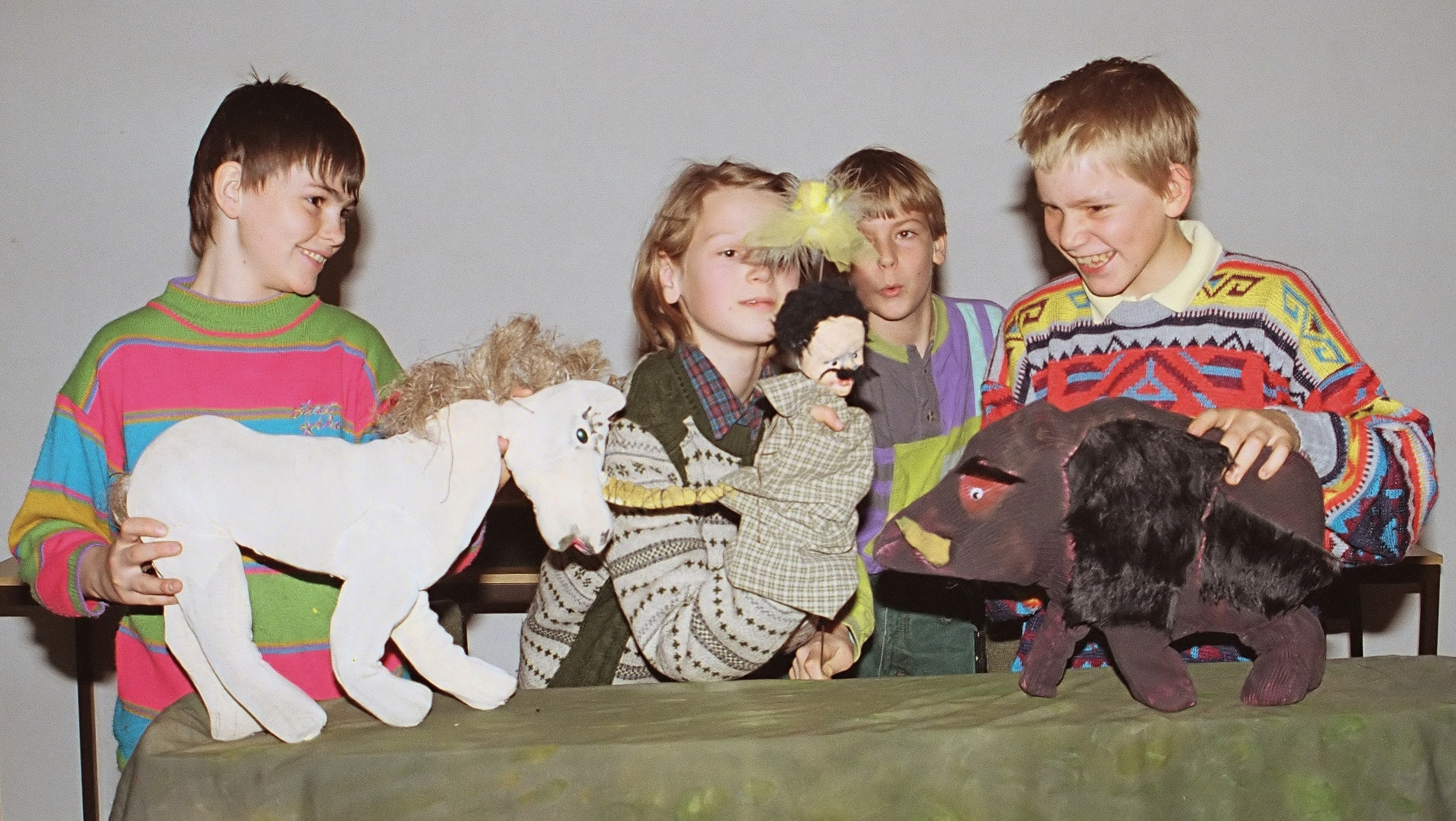 German children performing a tale with selfmade puppets Haus der Künste in Frankfurt (Oder), around 1992 (The boy in the middle is Tilman Piesk.)